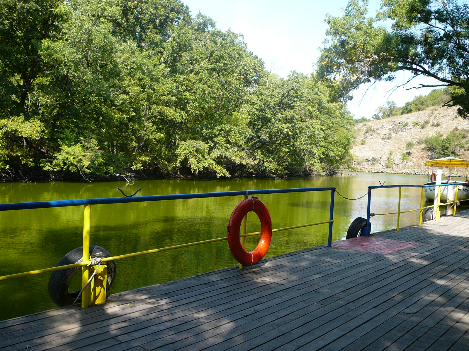 The quay of Ropotamo river, Bulgaria